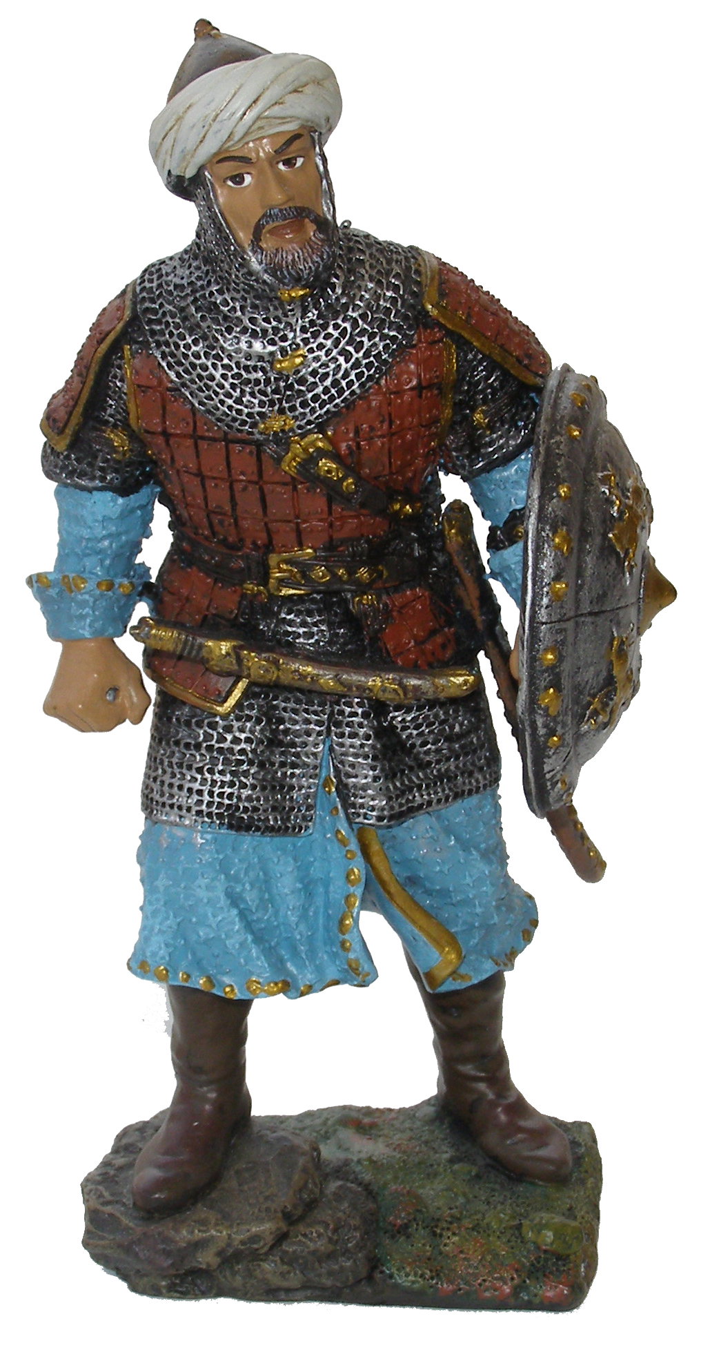 Arab soldier model (Part of my collection)